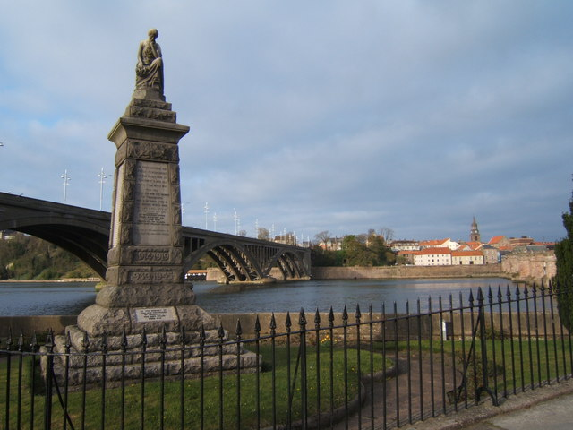 War Memorial, Tweedmouth This is a much-loved view towards Berwick. The memorial commemorates those who died in both World Wars - but there is additional carving on the side which faces us in this picture, which reads: 2ND ENGINEER OFFICER PAUL A HENRY C.M. 8TH JUNE 1982 ABOARD FRA SIR GALAHAD AT BLUFF COVE - FALKLAND ISLANDS